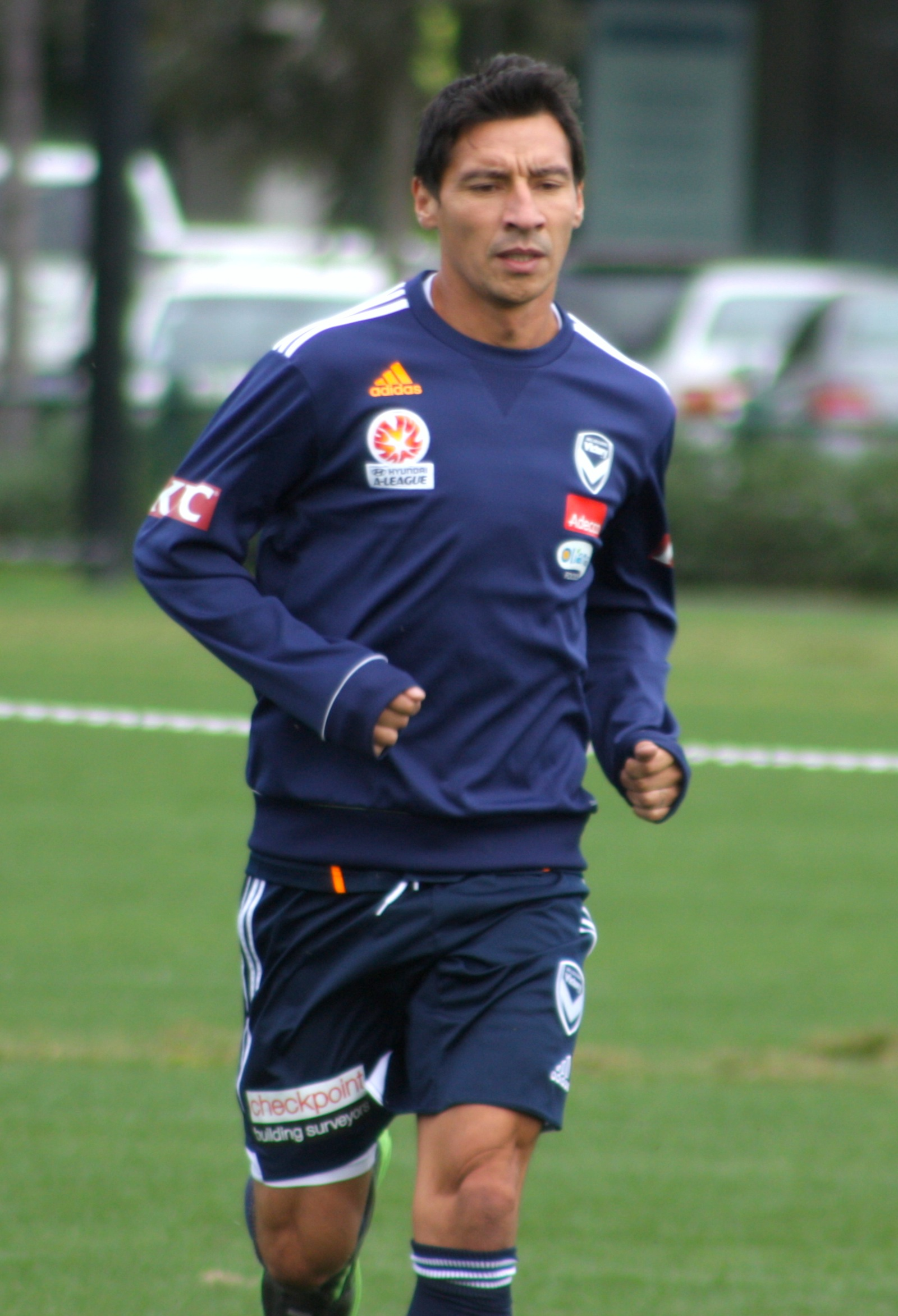 Pablo Contreras Training for Melbourne Victory at Gosches Paddock